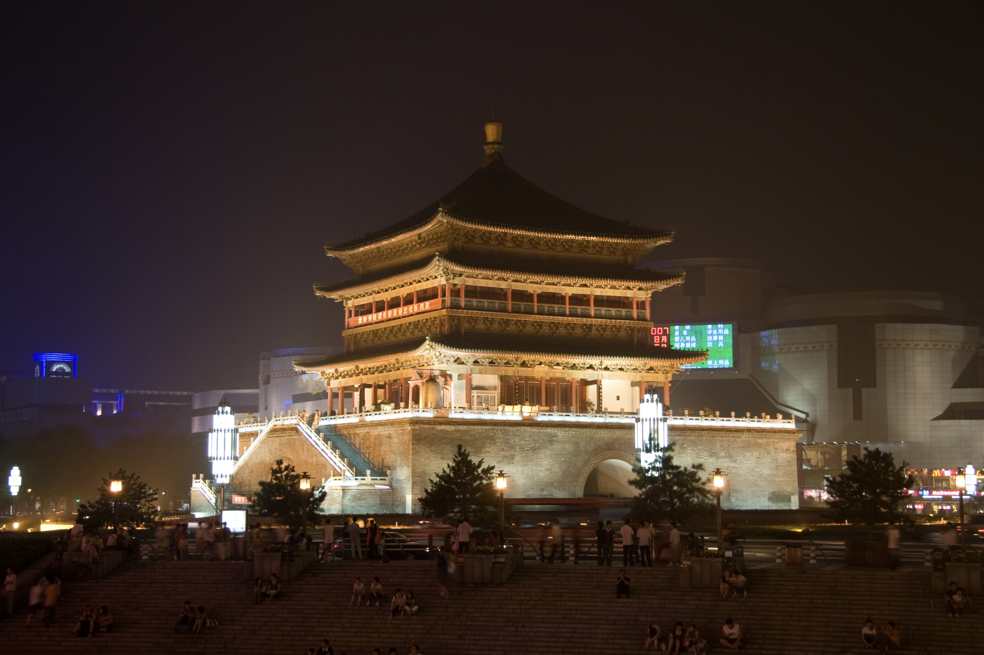 Bell tower in Xi'an, China